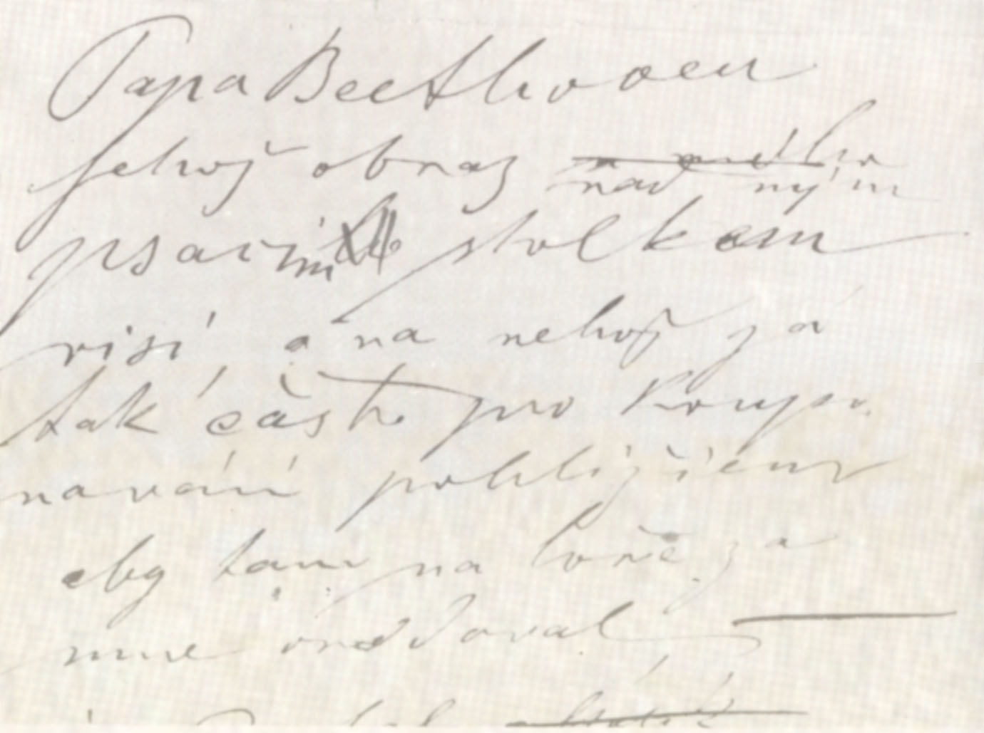 Antonín Dvořák wrote from Prague